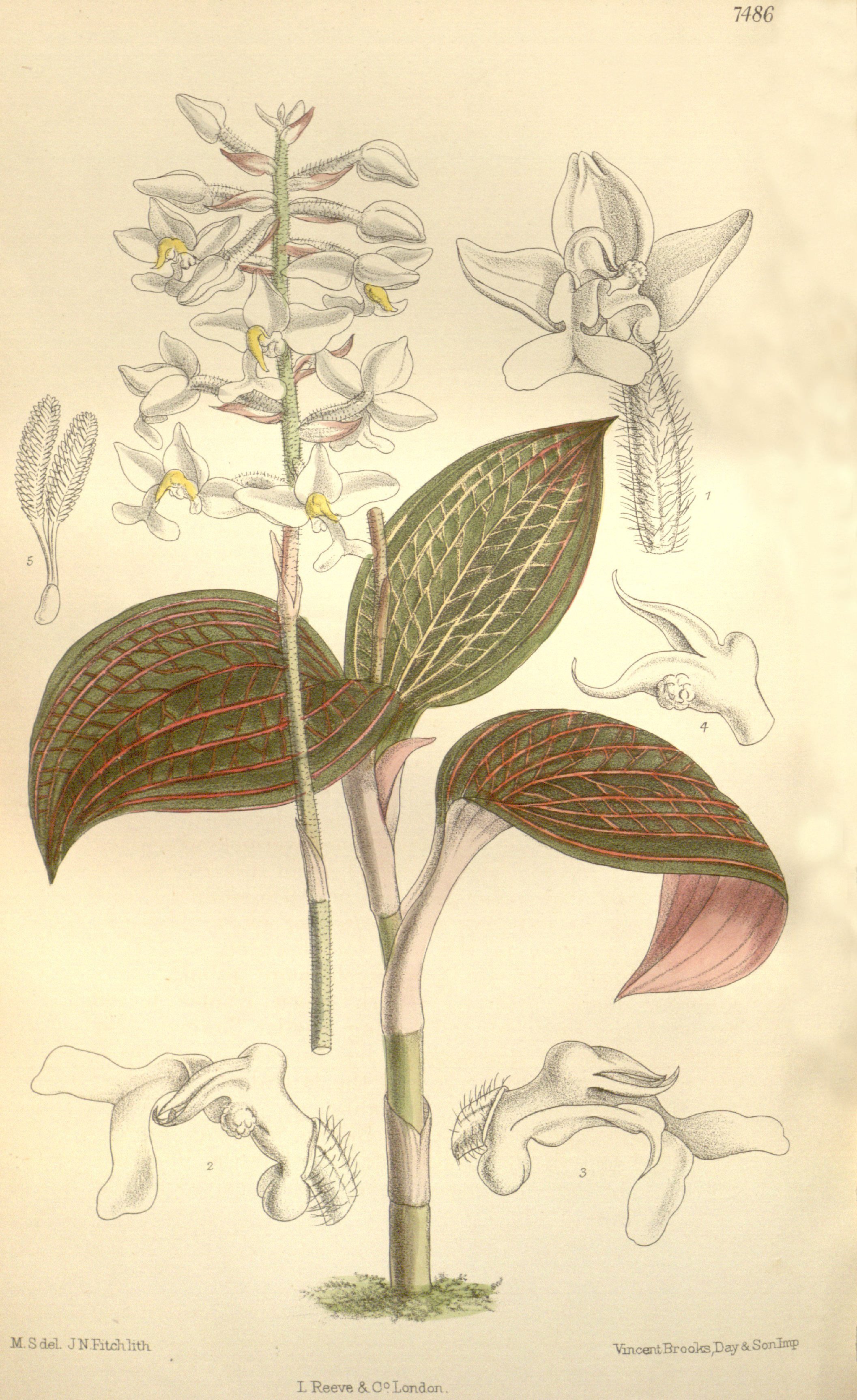 Illustration of Ludisia discolor (as syn. Haemaria dawsoniana)